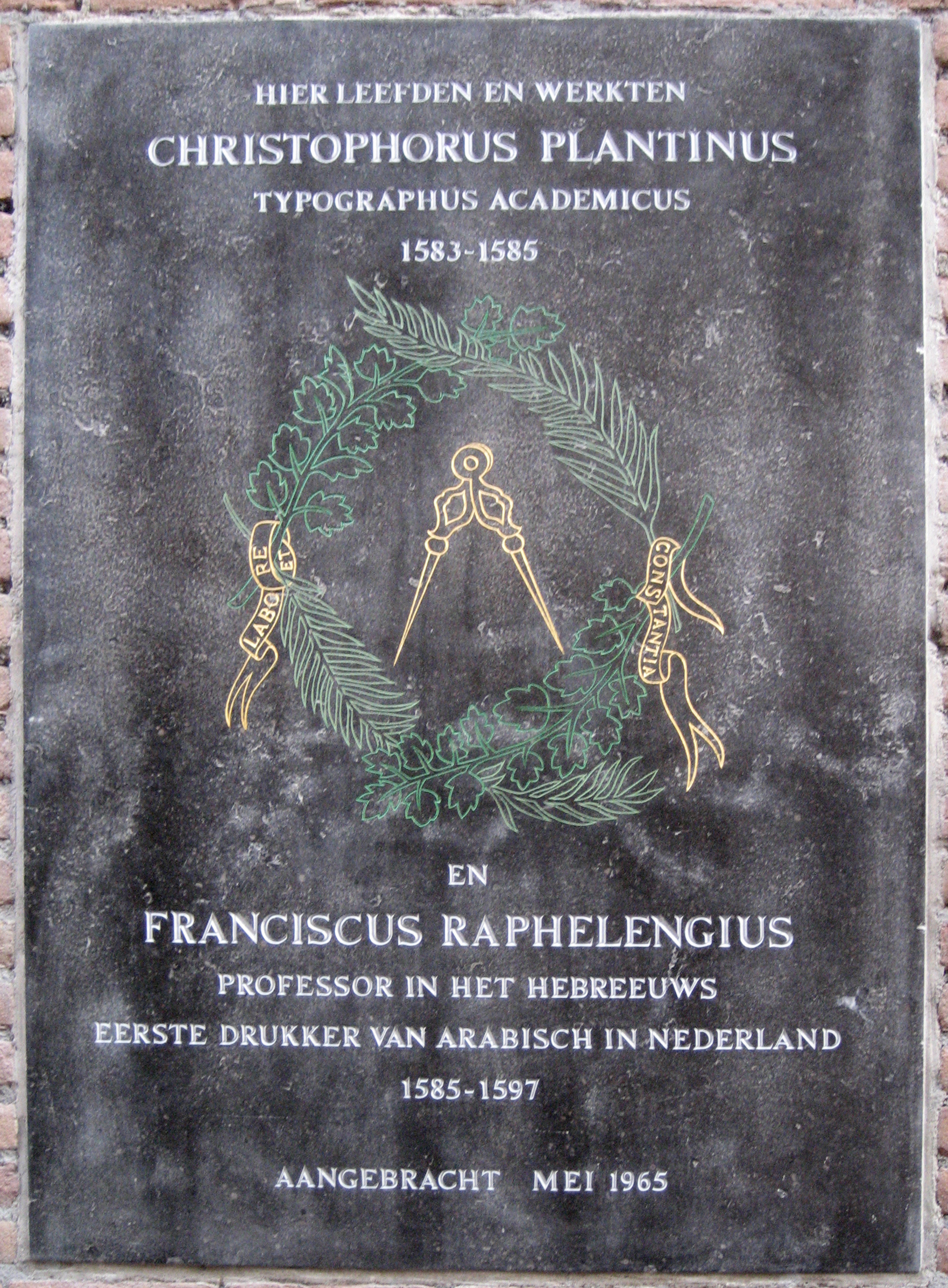 Memorial in Leiden. "Christoph Plantin and Francis Raphelengius, lived en worked here in the 16th century. Labore et constantia"